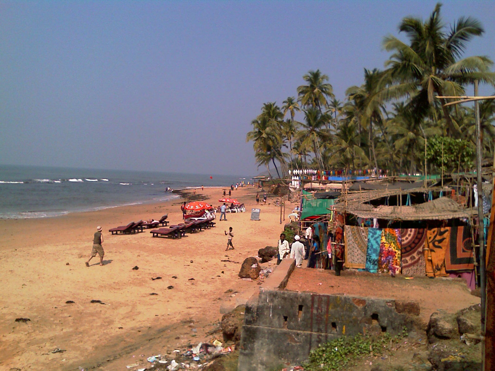 Anjuna beach at Anjuna Market, North Goa, India